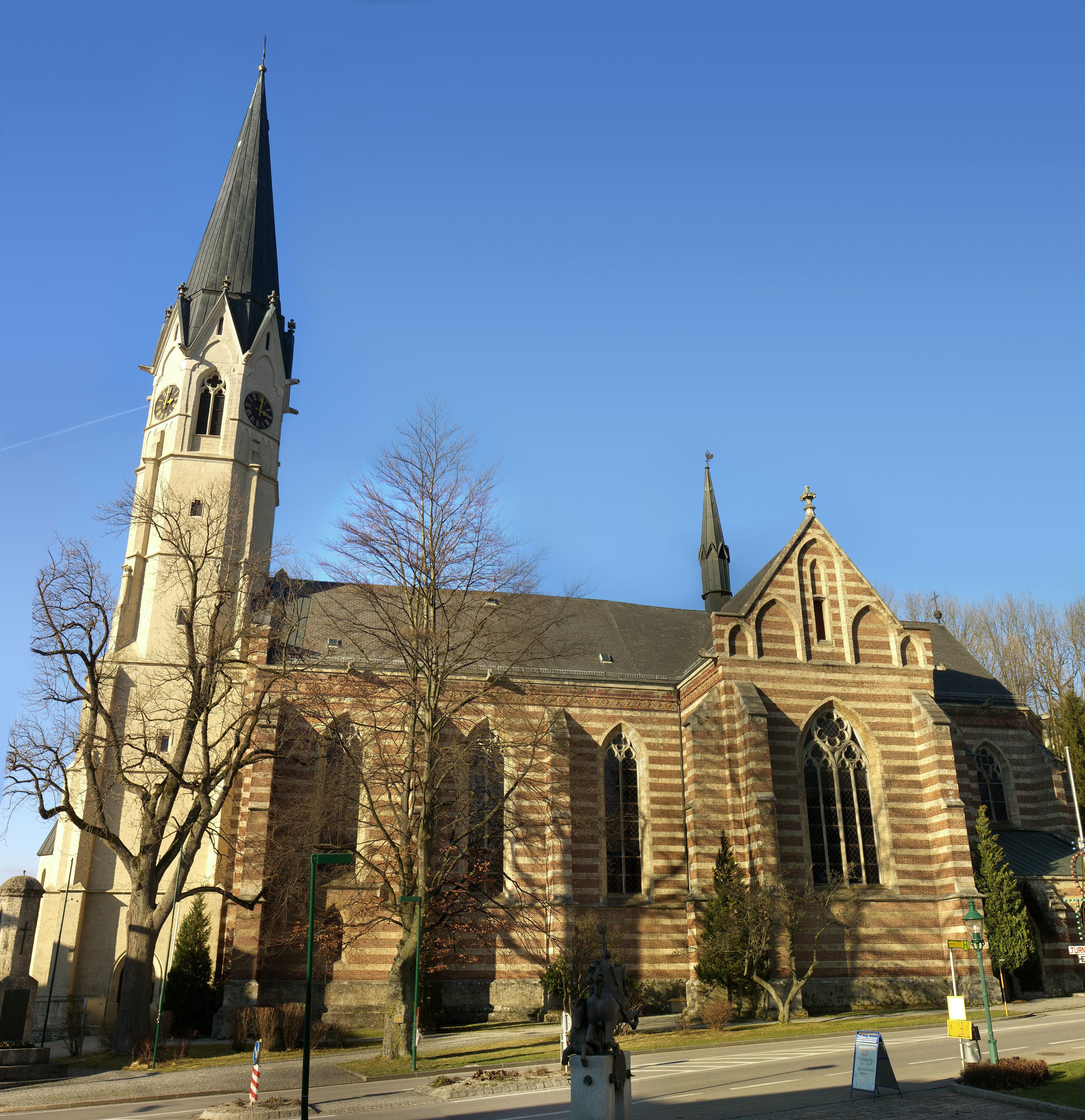 The church of Mauerkirchen, Austria as a multi segmented panorama. Parts of the sky were recreated digitally.